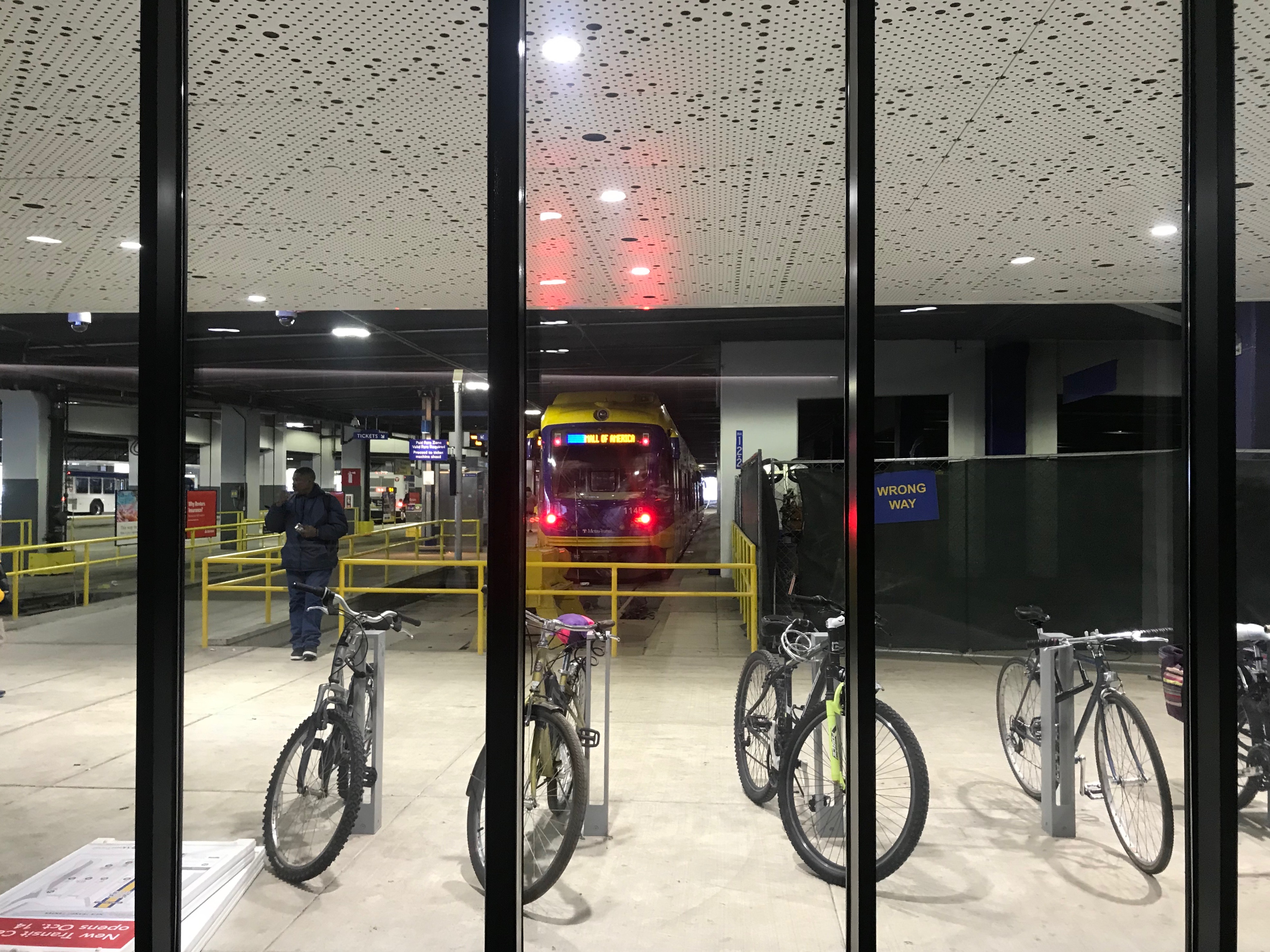 The light rail platforms for the METRO Blue Line viewed from the renovated waiting area.